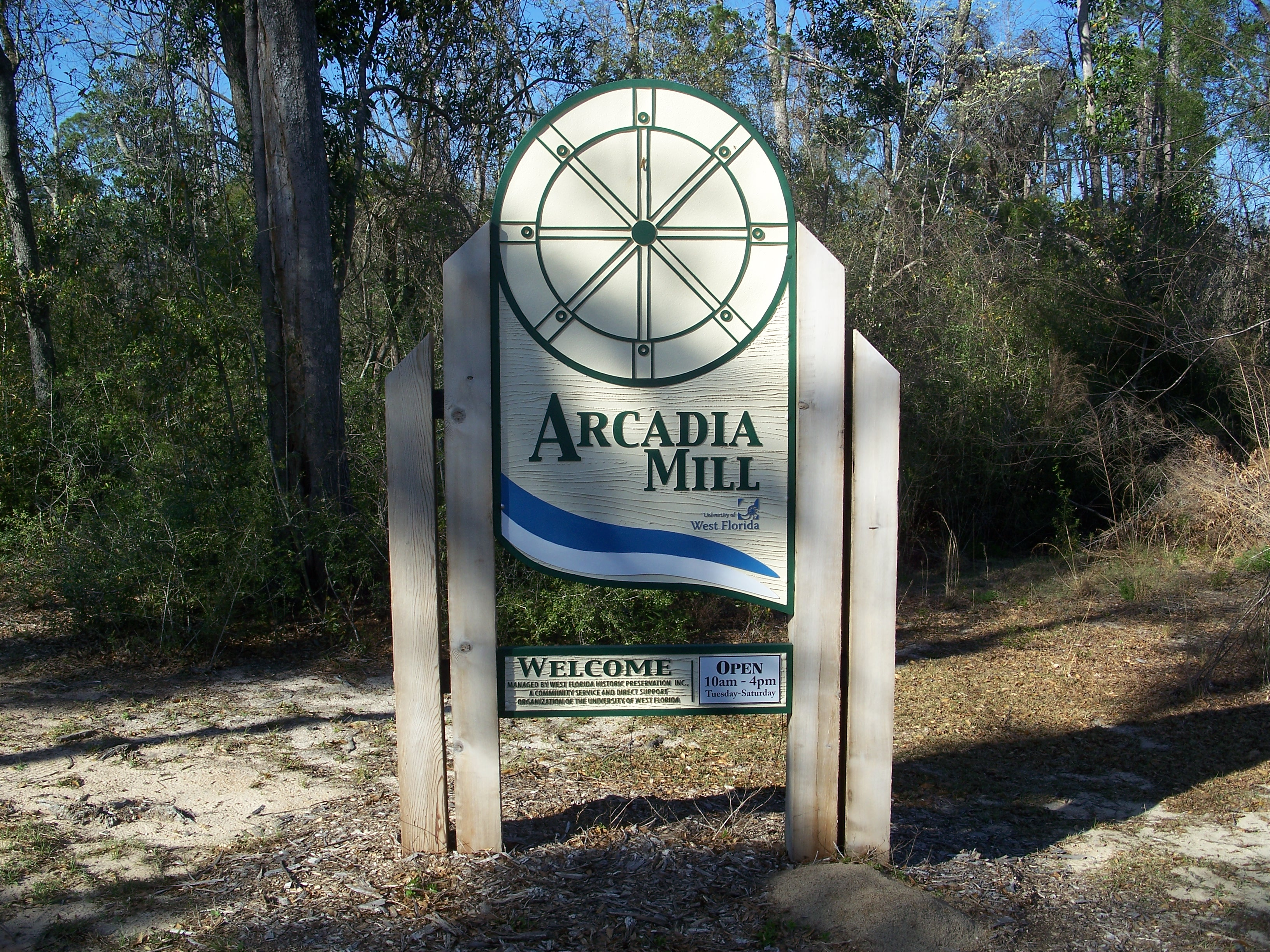 Between Milton, Florida and Pace, Florida: Sign at the Arcadia Mill Historical Archaeological Site.